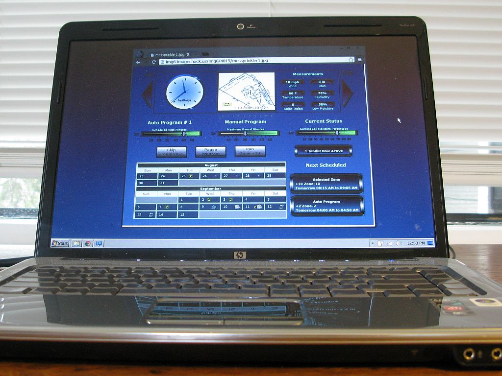 With the right software, your laptop can take on home automation duties such as running sprinklers, controlling thermostats or switching on lights.